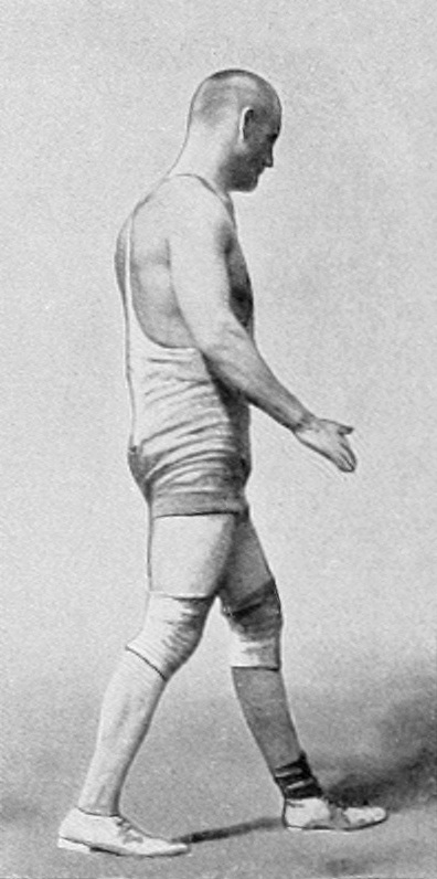 Yrjö Saarela, gold medallist in the heavyweight wrestling competition at the 1912 Summer Olympics in Stockholm.